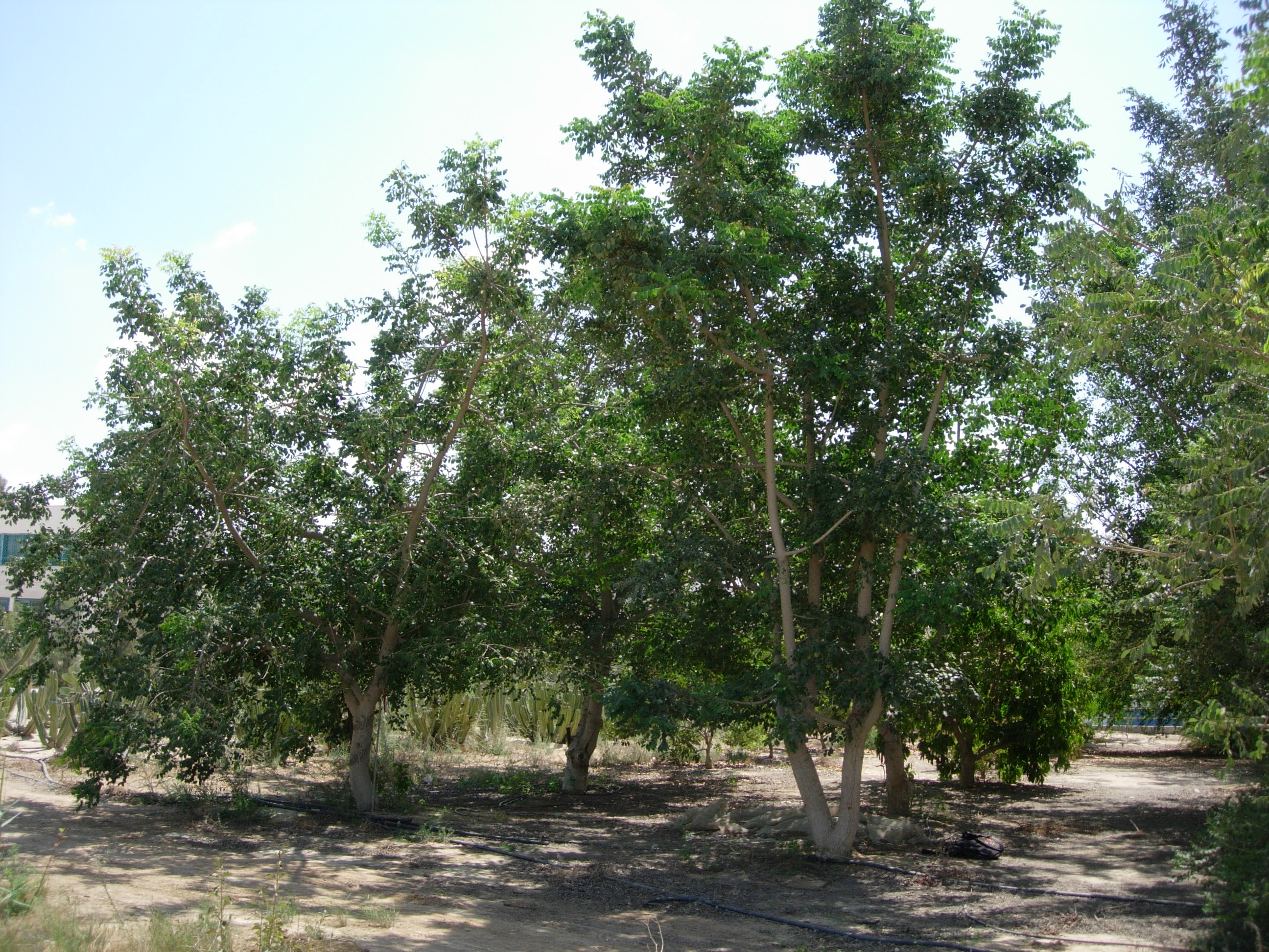 Amarula tree Sclerocarya birrea